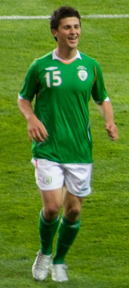 Shane Long